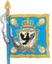 Flag of prussian cuirassier rgt no. 6 until its disbanding in 1806